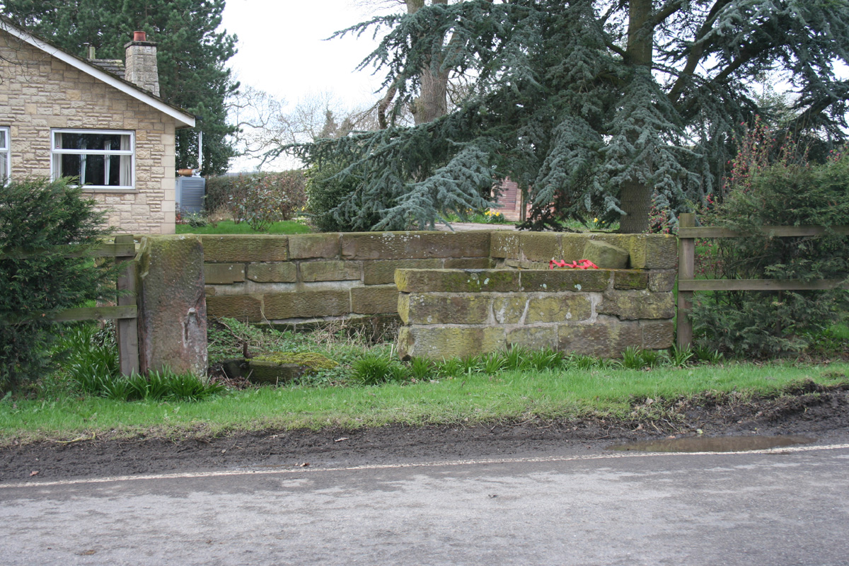 Grade II listed sandstone pinfold, near Poole Bank, Cheshire